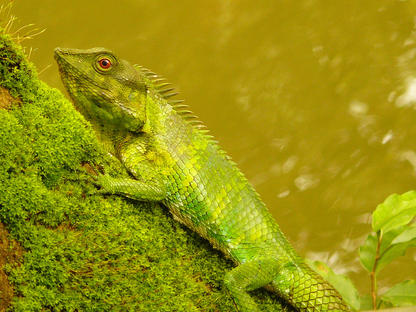 A Calotes cf. nemoricola near the Aquarium at Pookode Lake,Wayanad